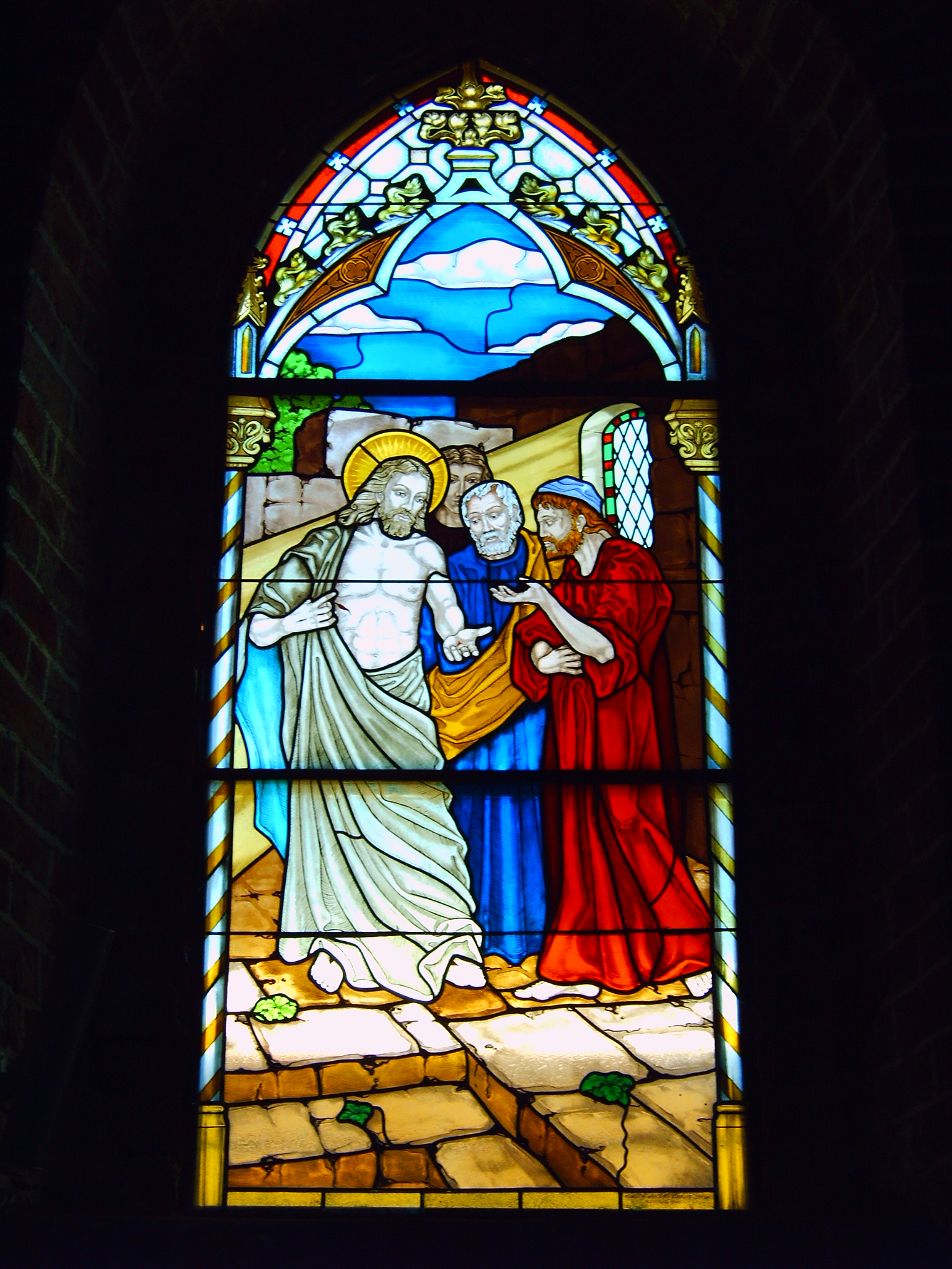 Poland, Mielno, church, stained glass - The Incredulity of St. Thomas